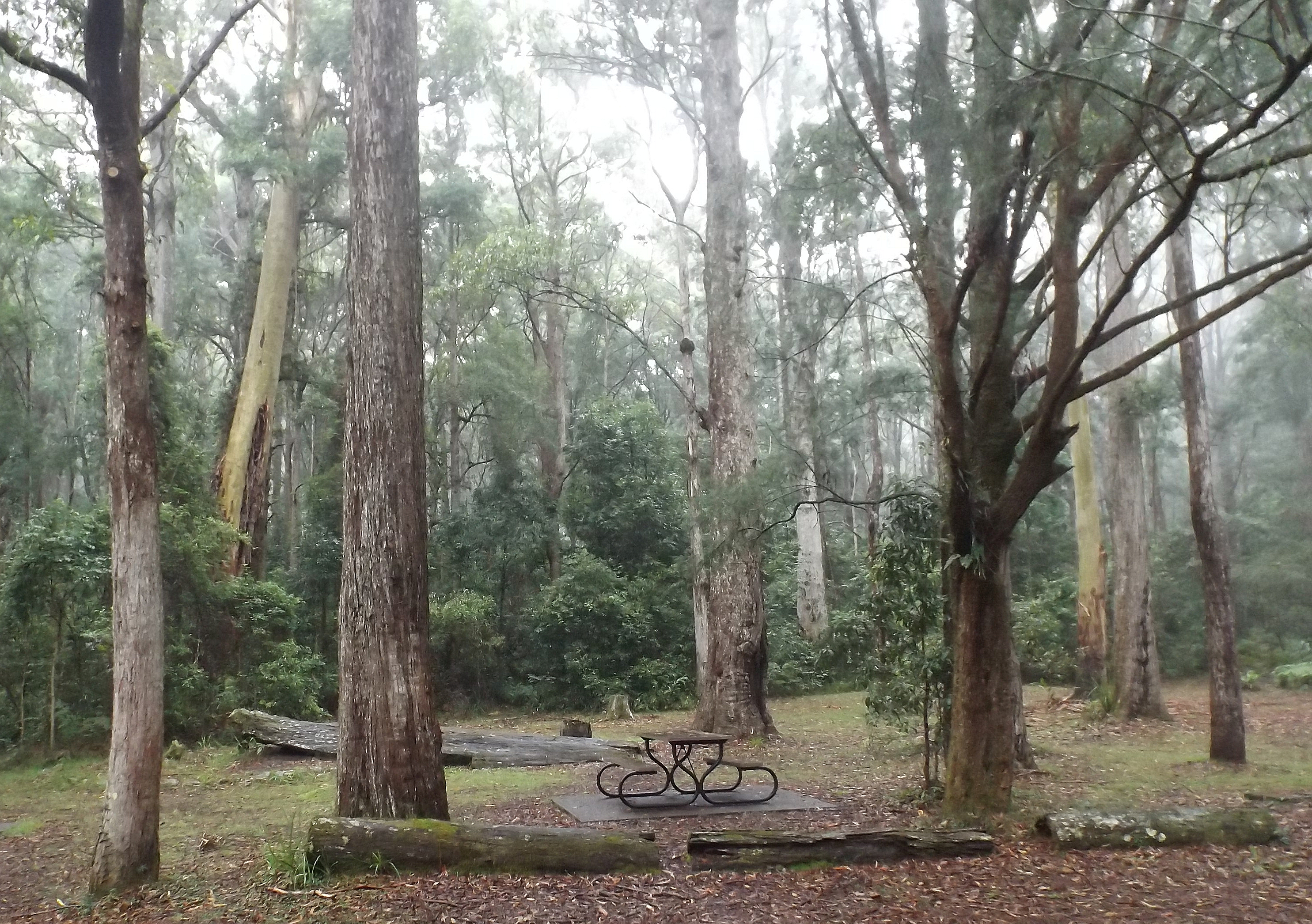 Photo of picnic area at Apple Tree Park in Springbrook, City of Gold Coast, Queensland, Australia.